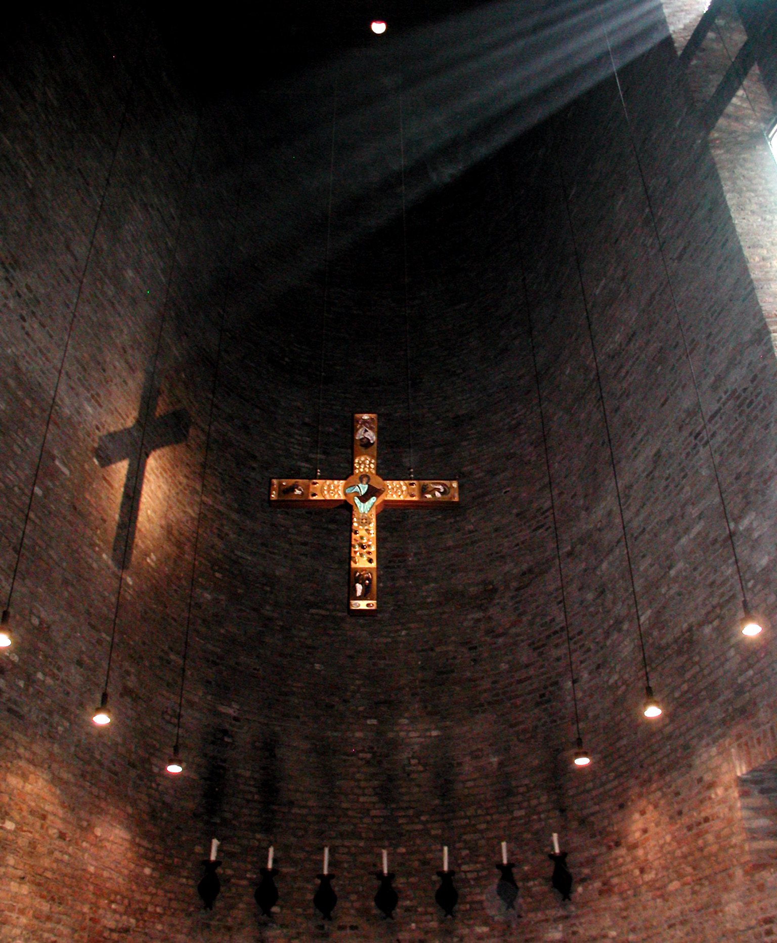 Cologne, interior of church "Neu-St-Alban"